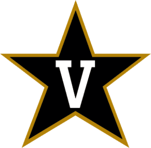 Logo of the Vanderbilt Commodores